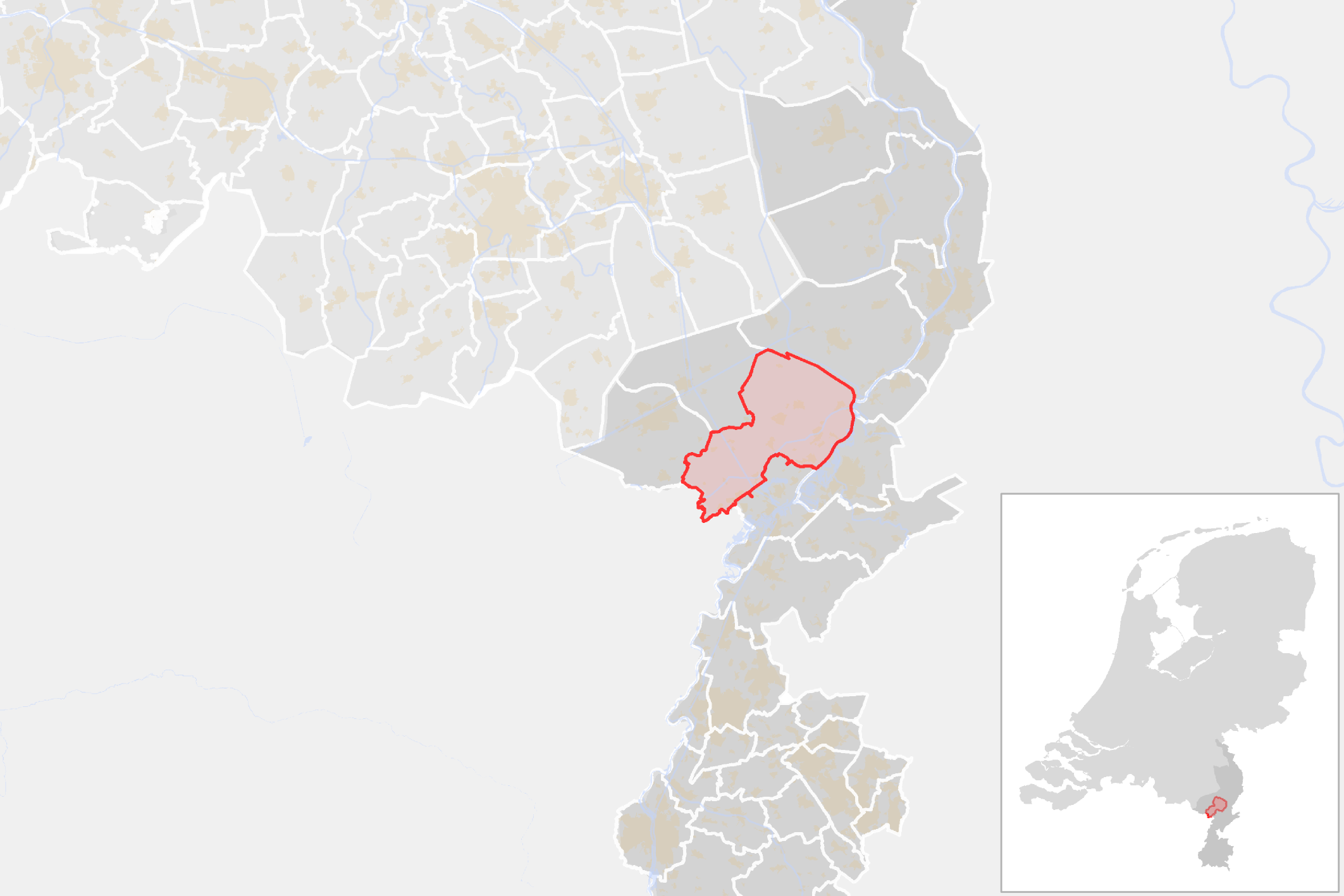 Locator map showing municipality boundary of one of the 390 Dutch municipalities (as of 2016)